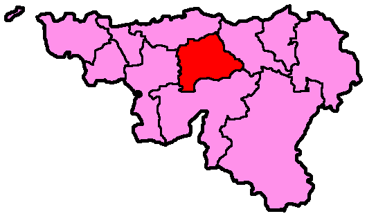 Location of the constituency of Namur in Wallonia